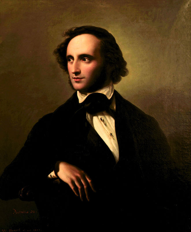 Felix Mendelssohn Bartholdy, portrait by Wilhelm Hensel